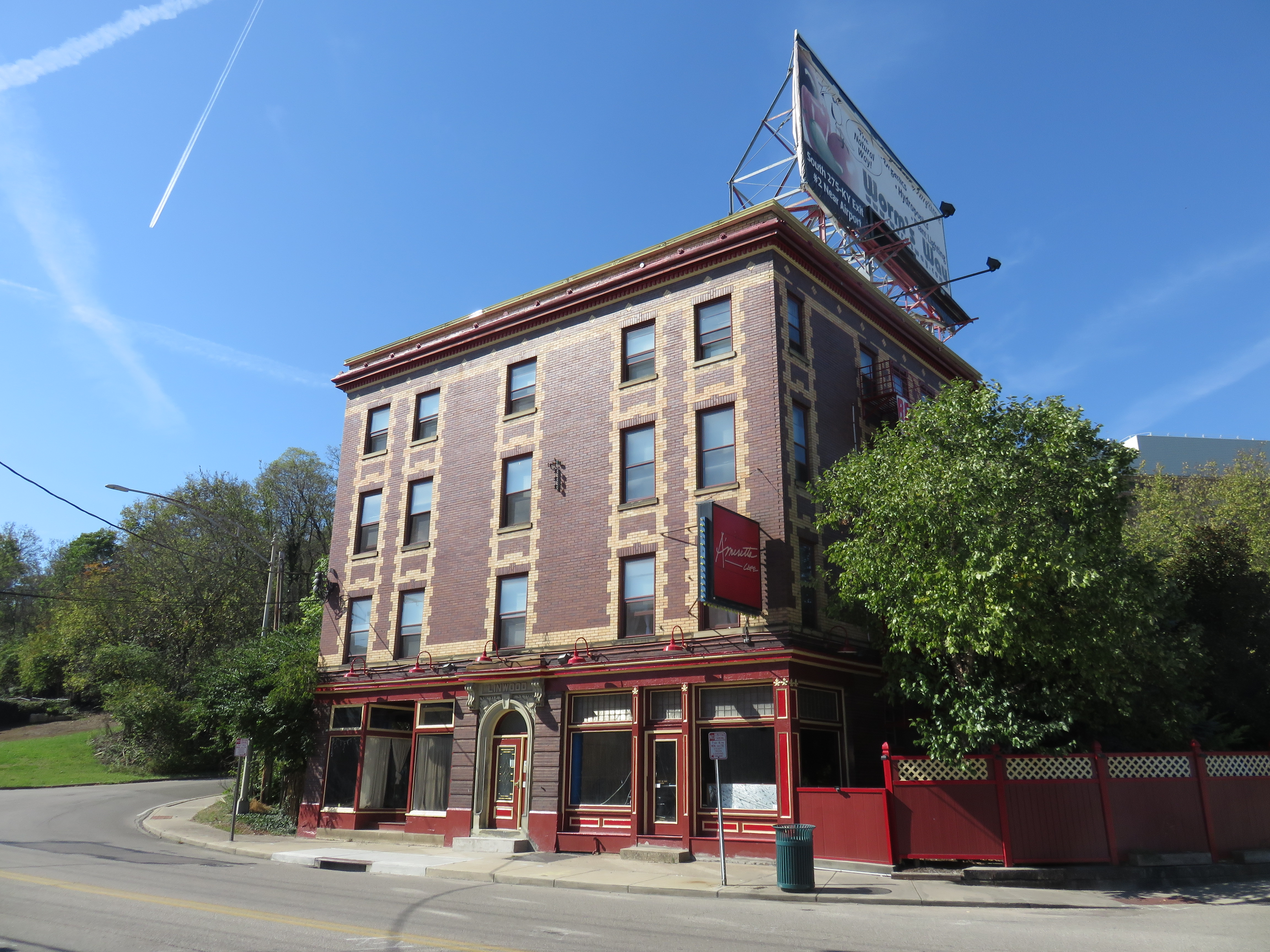 Linwood Building in Linwood, Cincinnati in 2017